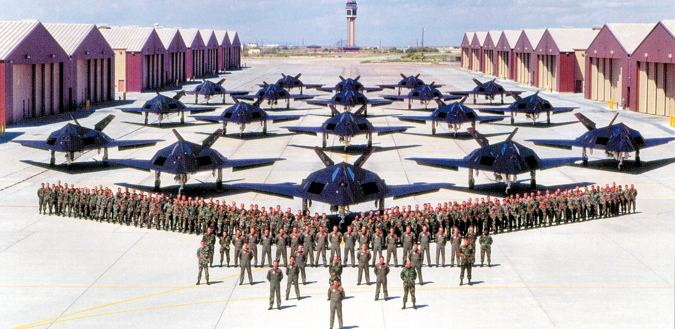 F-117A Nighthawks of the 49th Operations Group at Holloman AFB, after the re-designation of the 37th Fighter Wing